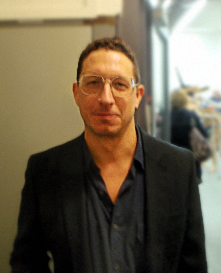 Tony Matelli, artist based in New York.